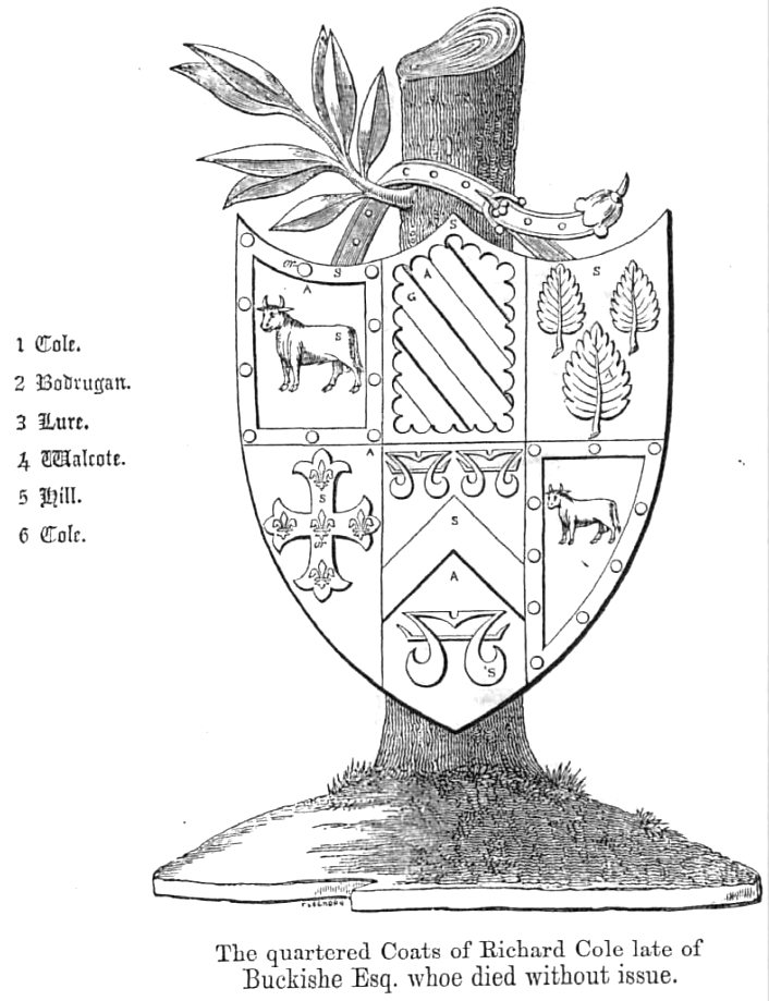 Quartered arms of Richard Cole (d.1614) of Bucks in the parish of Woolfardisworthy in Devon. Shield hanging by guige strap, from a branch of the family tree.